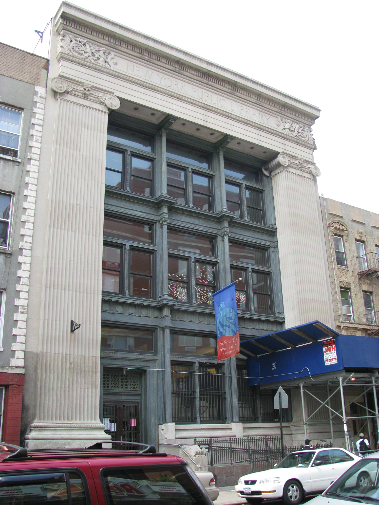 The Aguilar Branch of the New York Public Library, funded by Andrew Carnegie.